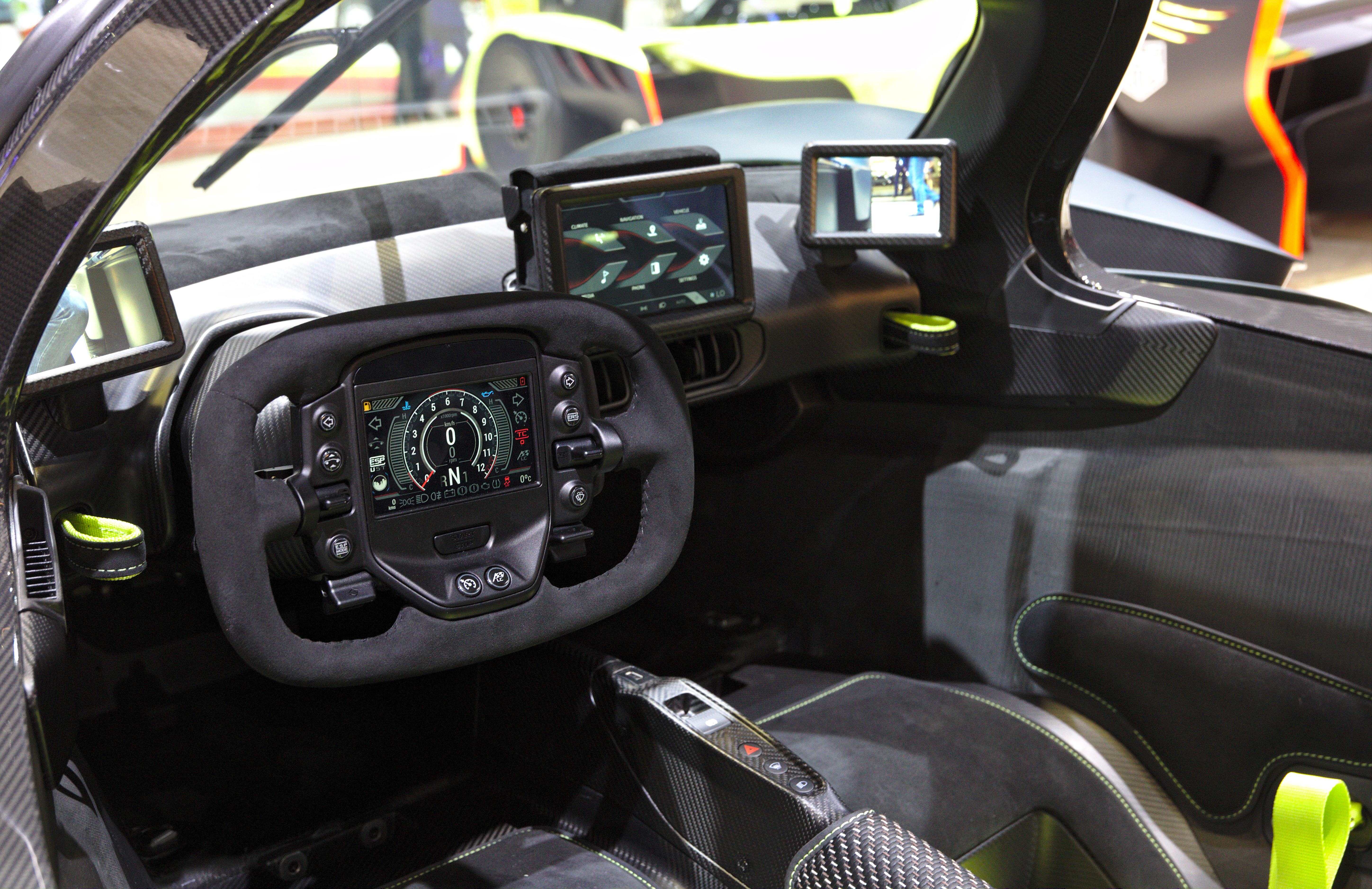 Aston Martin Valkyrie at Geneva Motor Show 2019